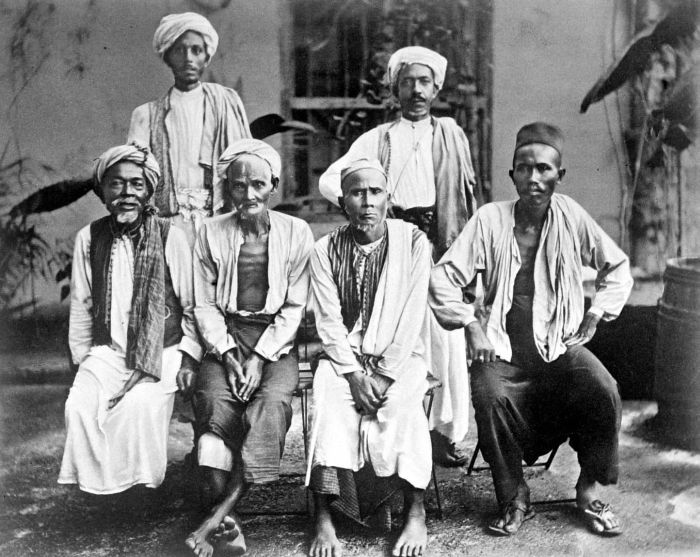 Pilgrims from Aceh in the Dutch Consulate in Jeddah for the hajj to Mecca, 1884